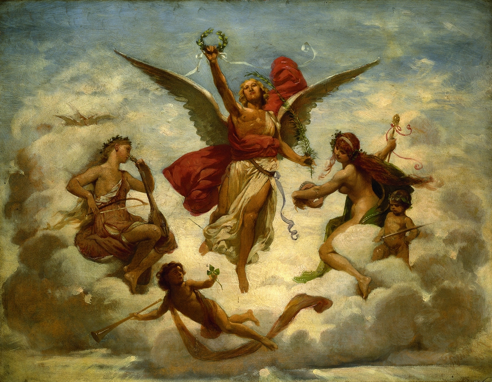 Original curtain of National Theatre before destroying by fire in 1881